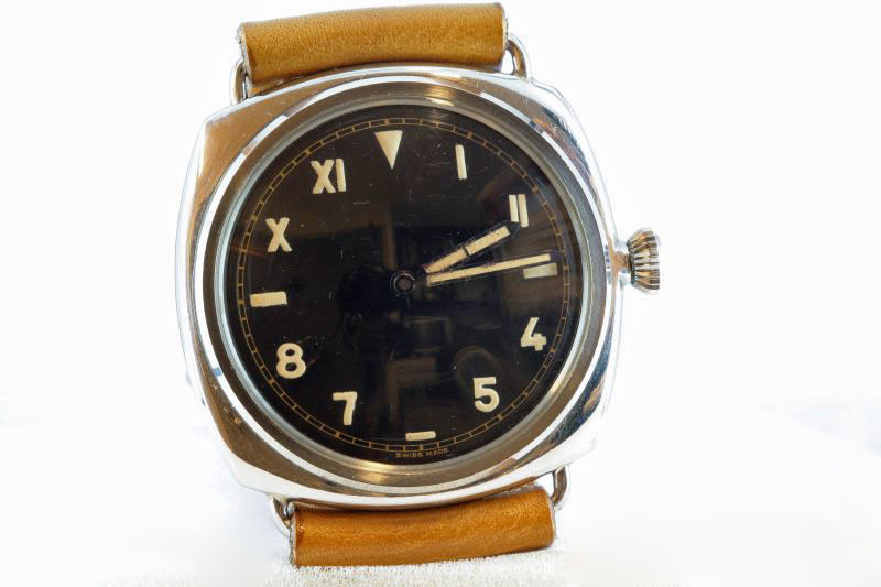 Panerai "Radiomir" underwater timepiece with a California dail. This watch was created in 1936 for the 1st Submersible Group. It was developed in response to the request made by the Royal Italian Navy (Marina Militare) in September 1935 for a luminous underwater watch for divers. A California dial refers to a clock face that consists of half Roman (usually 10 o'clock to 2 o'clock) and half Arabic numerals (usually 4 o'clock to 8 o'clock). Sometimes the hours of 3, 6, and 9 are replaced with a dash instead of a numeral and an inverted triangle in place of the 12. The use of this dial style dates back to the 1930s, for example in early Rolexes, Marina Militare and Kampfschwimmer diver's watches.